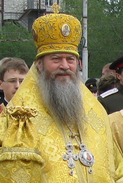 Tihon, archbishop of Novosibirsk and Berdsk